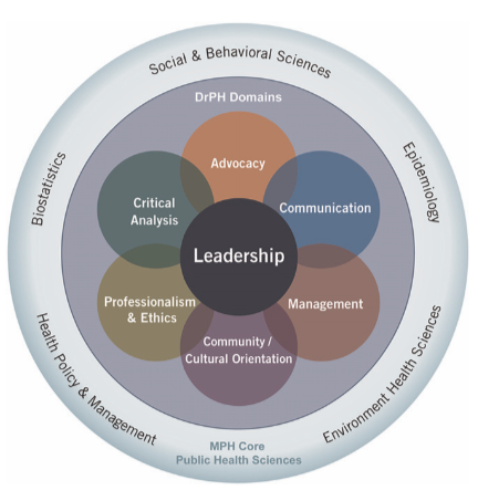 It shows the competencies of the DrPh program